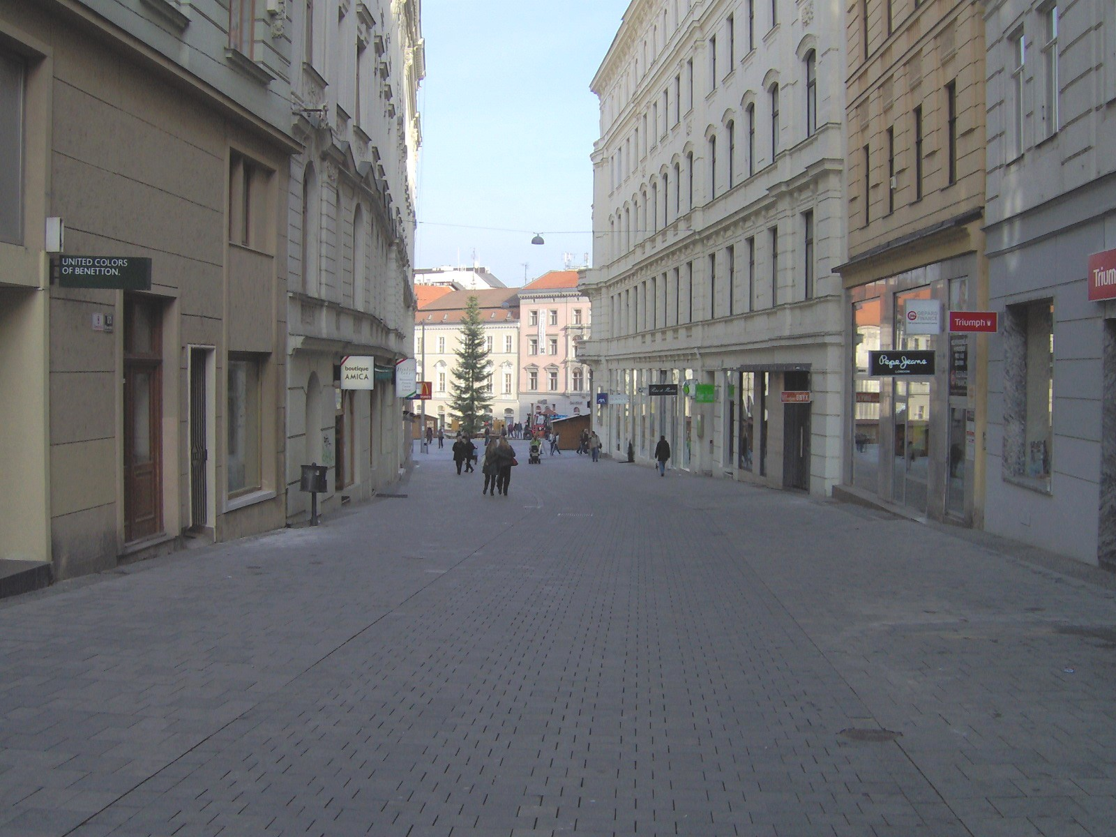 Zámečnická street Česky: Zámečnická ulice, zde do roku 1942 jezdily tramvaje